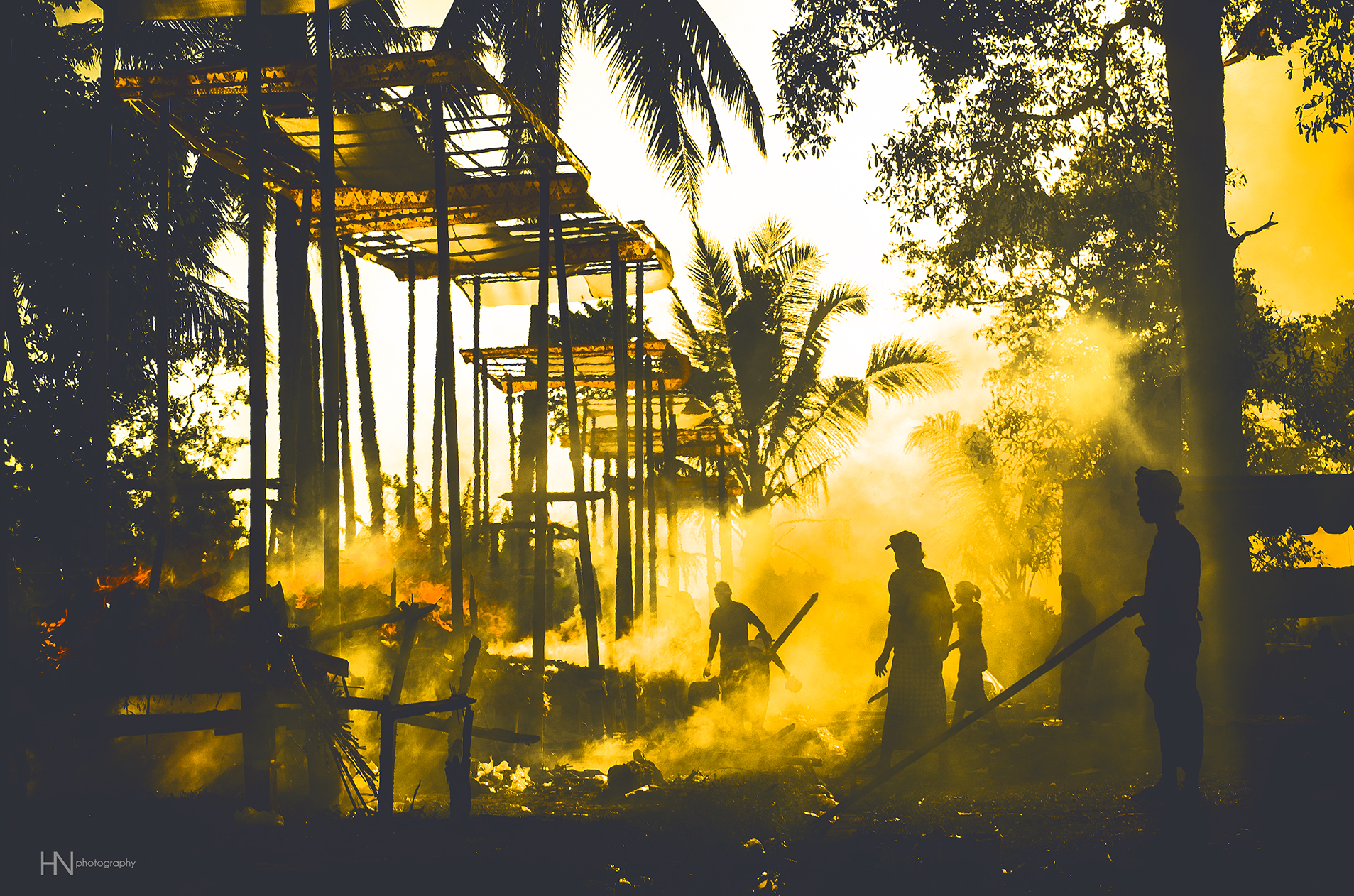 Cremation ritual in Balinese Hinduism